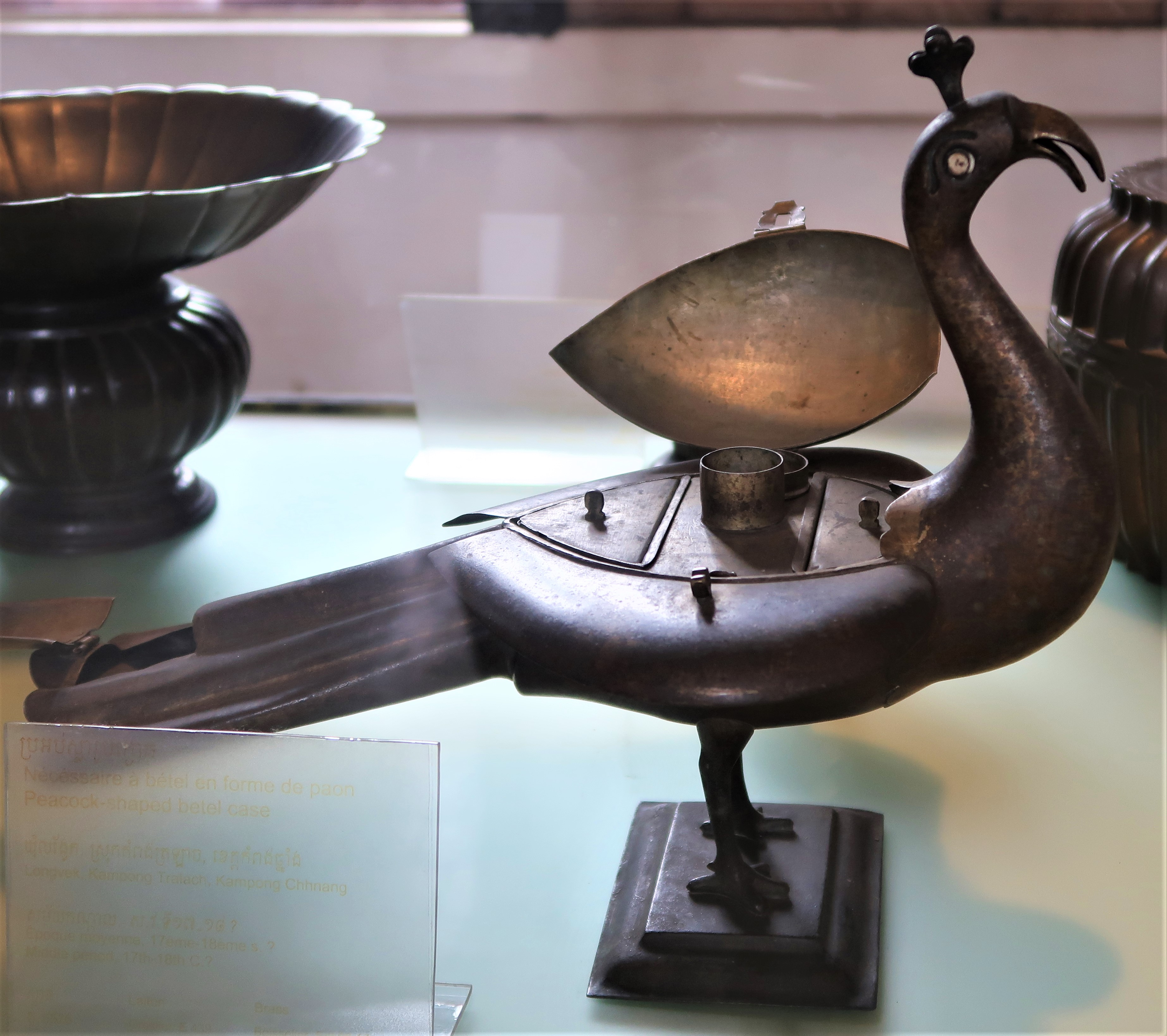 Paan Dan (case to store Paan) in shape of peacock. Made of Brass, the case dates to 17th or 18th century and belongs to Longvek in Cambodia. On display at the National Museum of Cambodia.